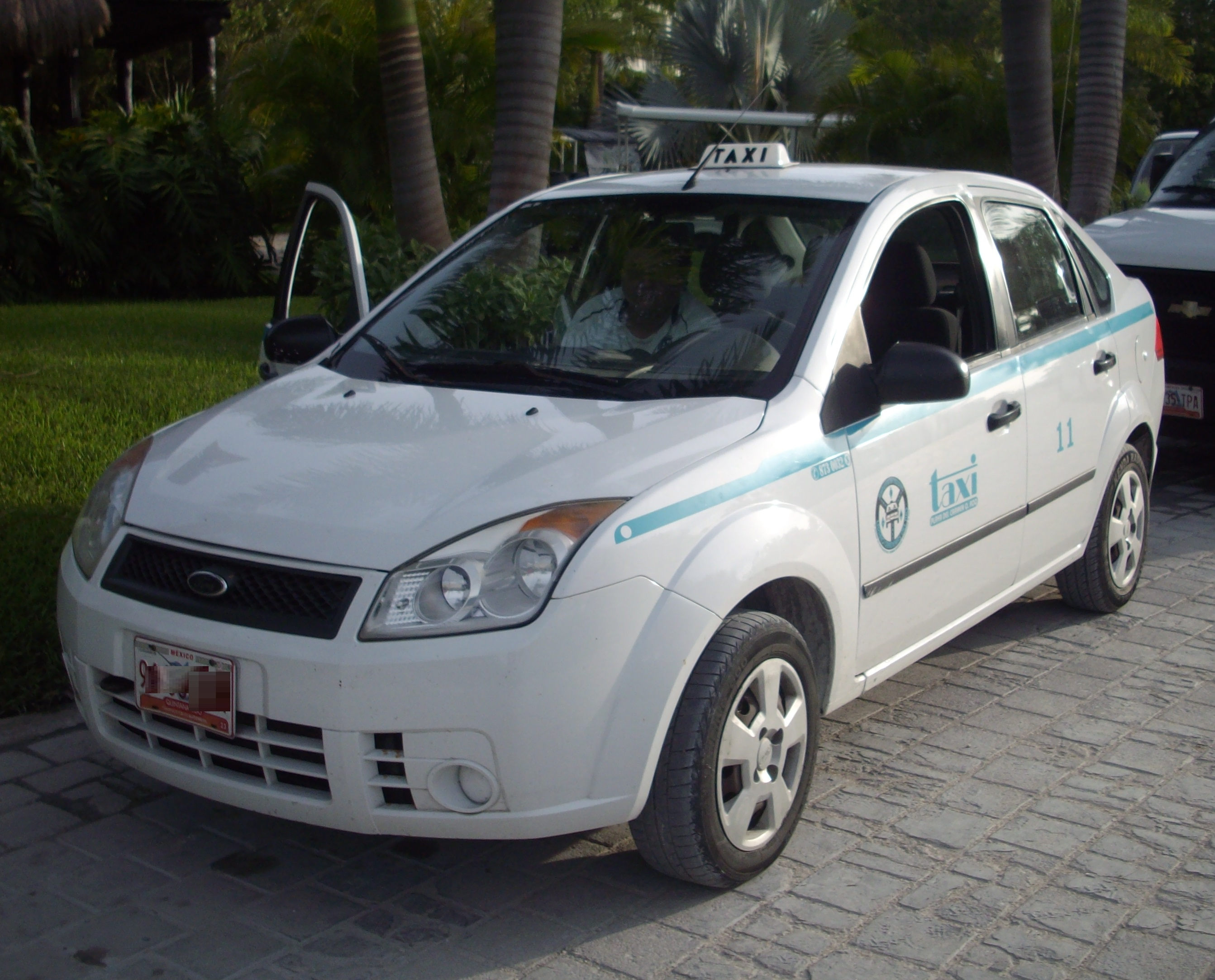 2008-2010 Ford Fiesta photographed in Quintana Roo, Mexico.